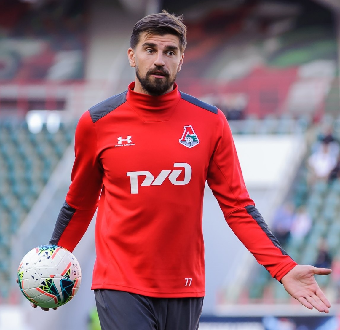 Anton Kochenkov with FC Lokomotiv Moscow before the game against FC Ural Yekaterinburg.